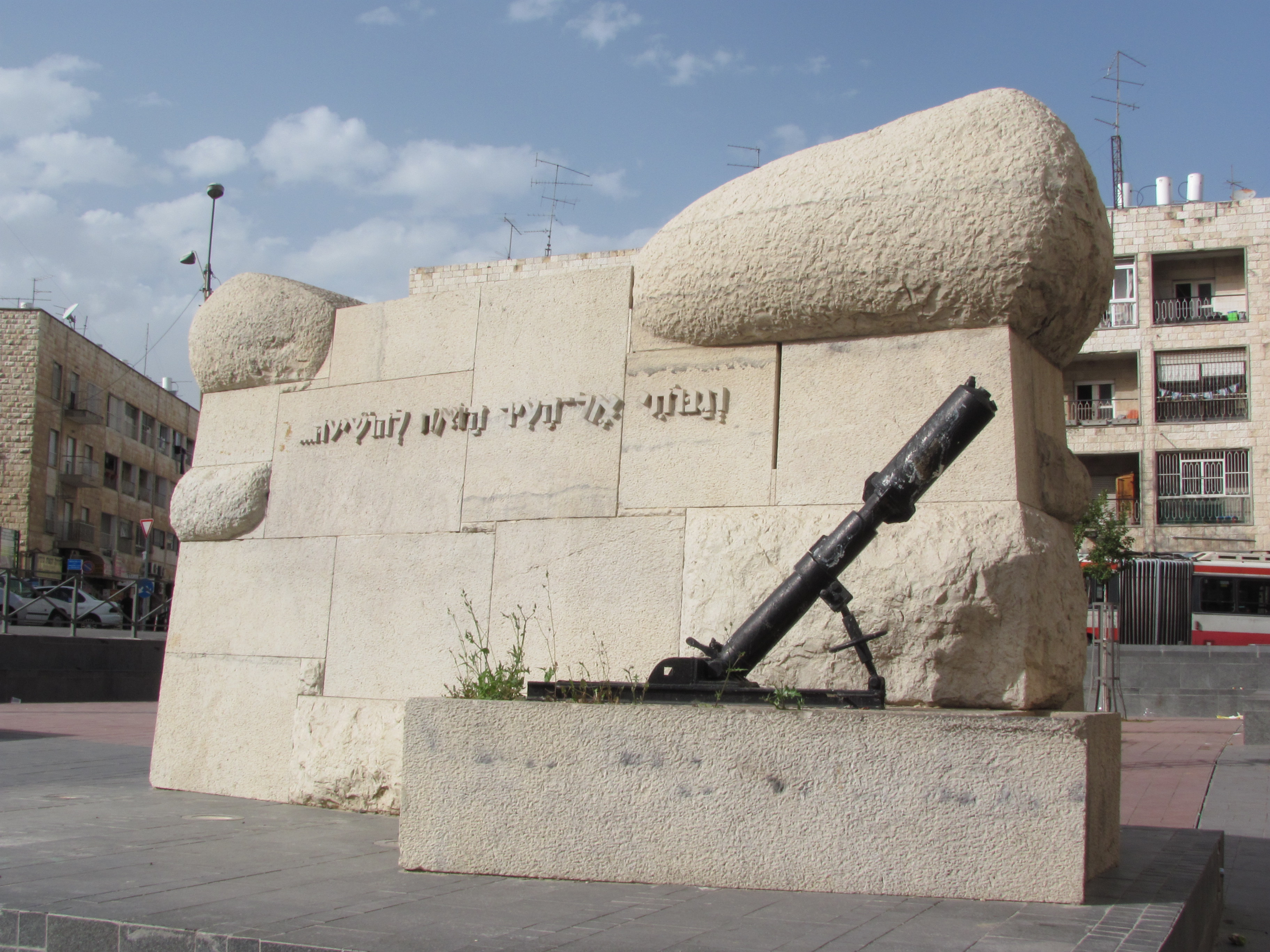 Davidka Square memorial, Jaffa Road, Jerusalem, Israel